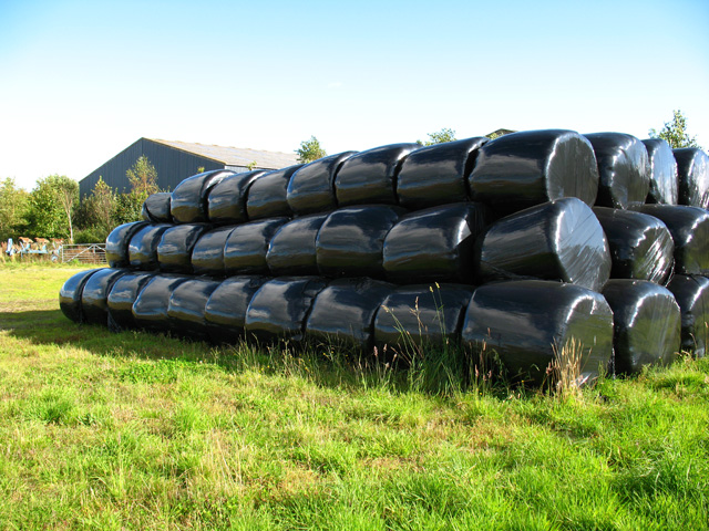 Newton of Cawdor stack of bales. Sweet smelling fodder stored for winter.